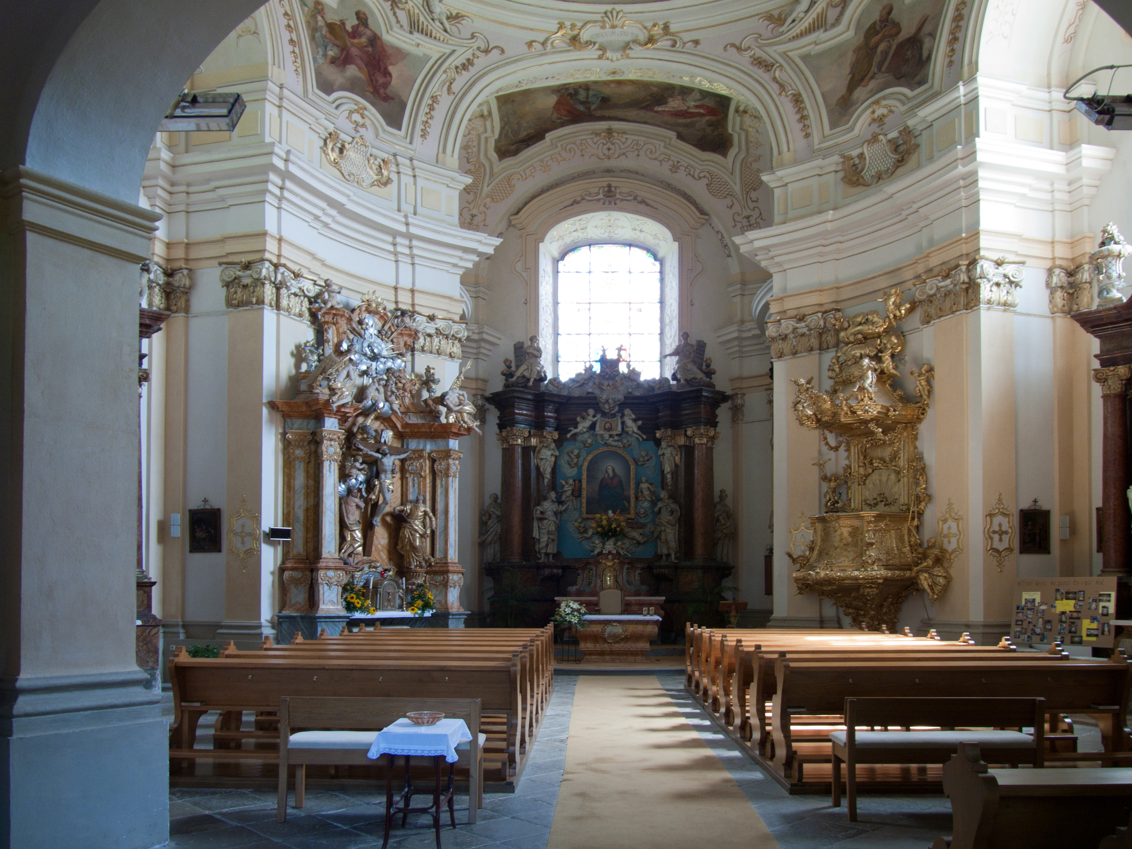 Interior of the Virgin Mary Church in the village of Dobrá Voda u Českých Budějovic, České Budějovice District, Czech Republic